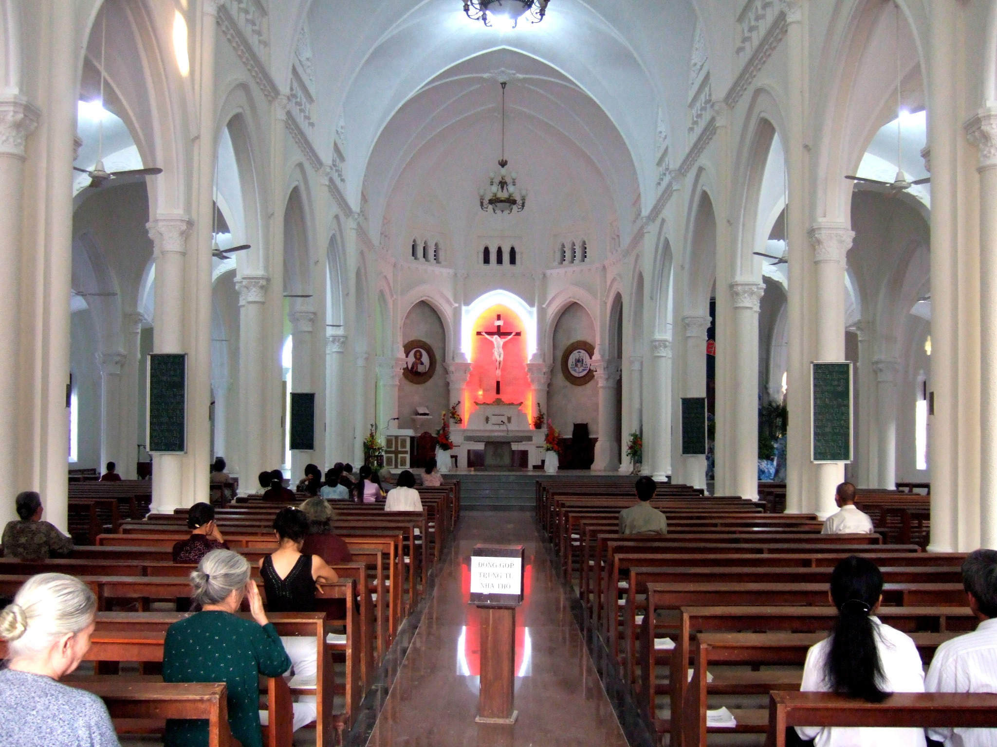 Cathedral in My Tho, Mekong Delta, Vietnam